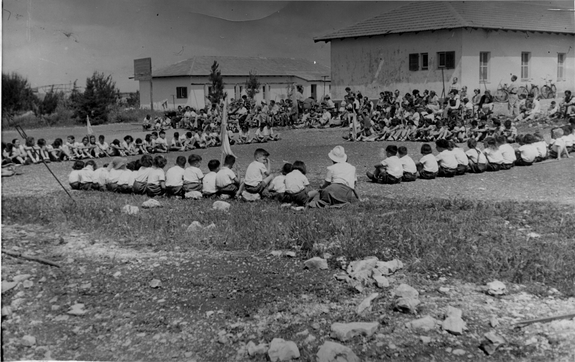 Great pride was the children\'s educators in their 40s - 50 - when they saw all the children together in a large census. Pride of the children was also